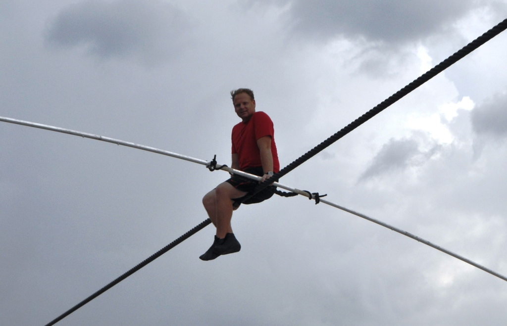 Nik Wallenda Takes a Break from Training for June 23, 2013 Grand Canyon Walk at Nathan Benderson Park, to Answer Questions by the Crowd, Sarasota, Fla., June 16, 2013